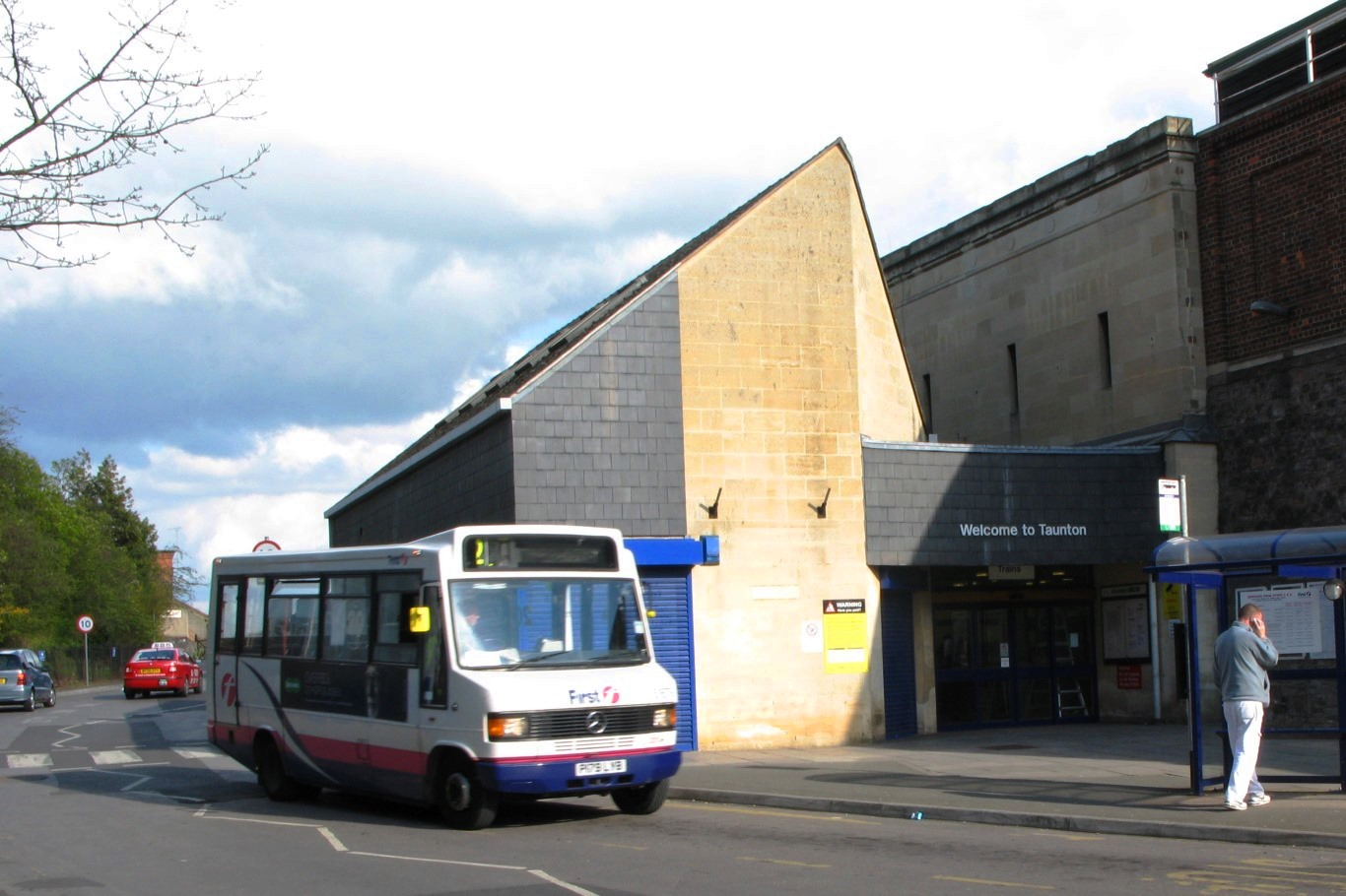 The main entrance to Taunton railway station, Somerset, England